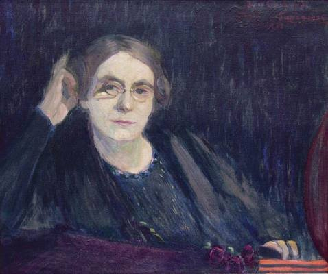 Self-portrait of Ida Gerhardi, painted in Paris in 1905